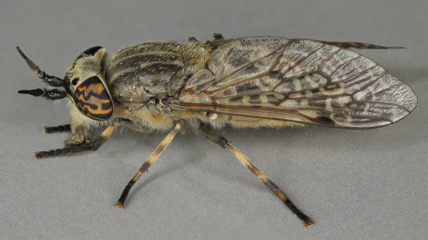 Haematopota pluvialis female, Deeside, North Wales, July 2011